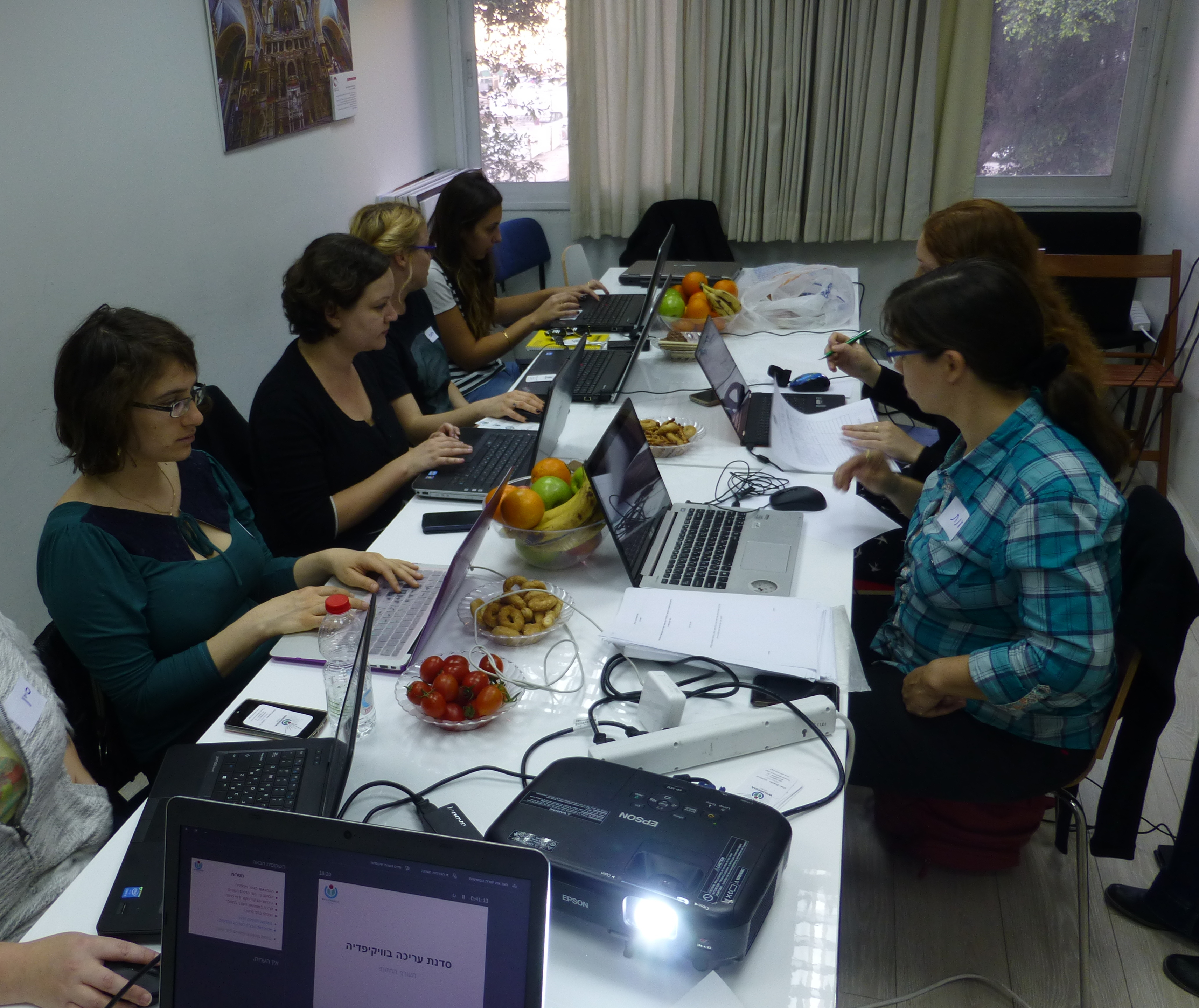 Wiki Women Editors Project - Women in technology 2.4.2015